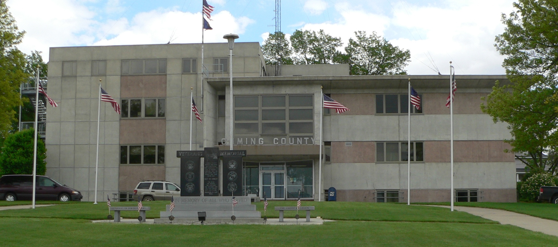 Cuming County Courthouse in West Point, Nebraska; seen from the west. The building was constructed in 1954.